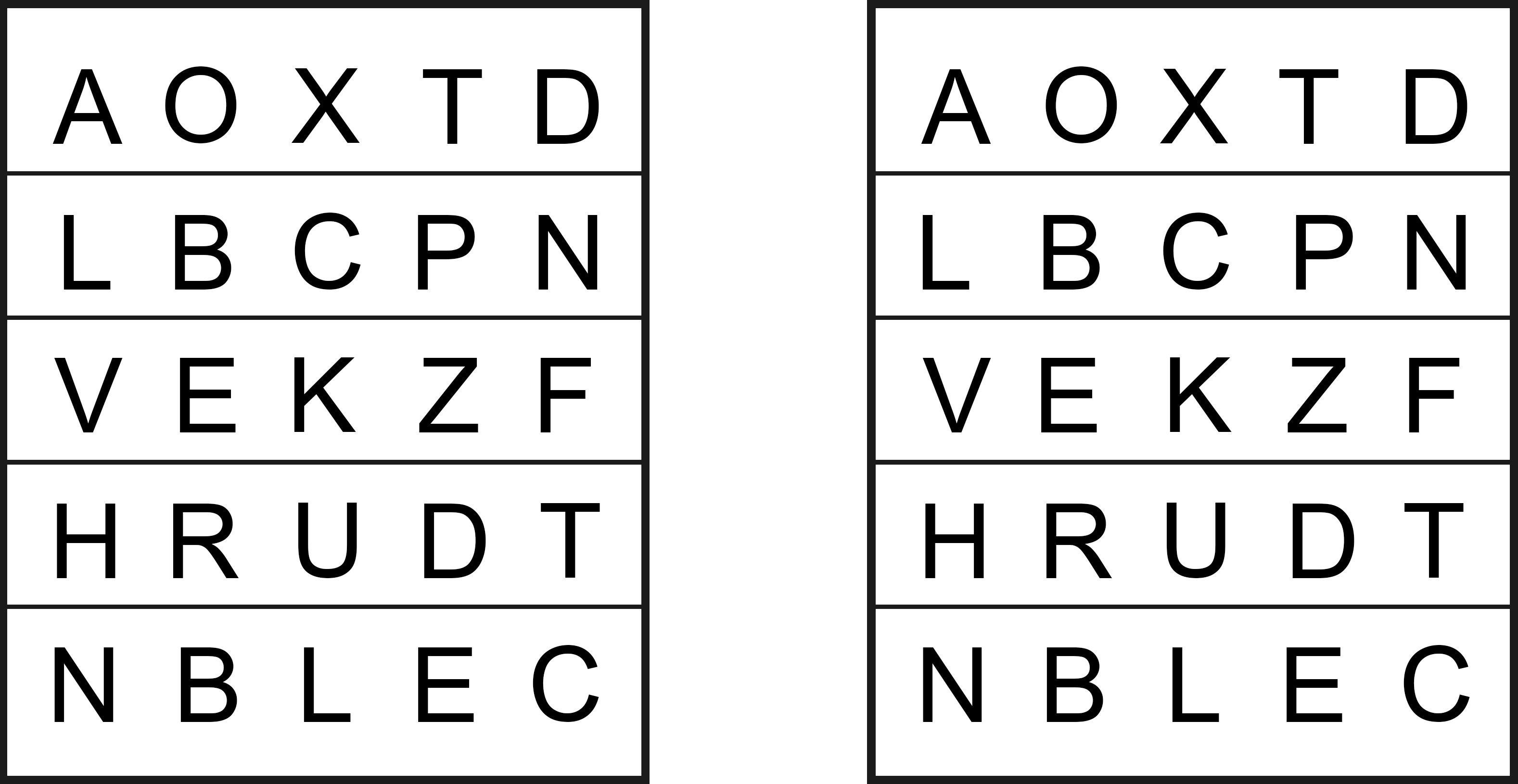 Stereogram panels for testing stereoacuity. An improved version of the Stereo Snellen chart created by wikipedia user Gwestheimer. In this chart, each line has one letter closer in depth and another further in depth. The magnitude of the disparity decreases from top to bottom (top being the largest differences in depth). The "correct" differences when viewed with parallel free fusing (p) or cross-eyed free fusing (x) are: Row 1 (top row): O (p: further, x: closer), T (p: closer, x: further) Row 2: P (p: further, x: closer), L (p: closer, x: further) Row 3: K (p: further, x: closer), E (p: closer, x: further) Row 4: R (p: further, x: closer), T (p: closer, x: further) Row 5 (bottom row): C (p: further, x: closer), B (p: closer, x: further)